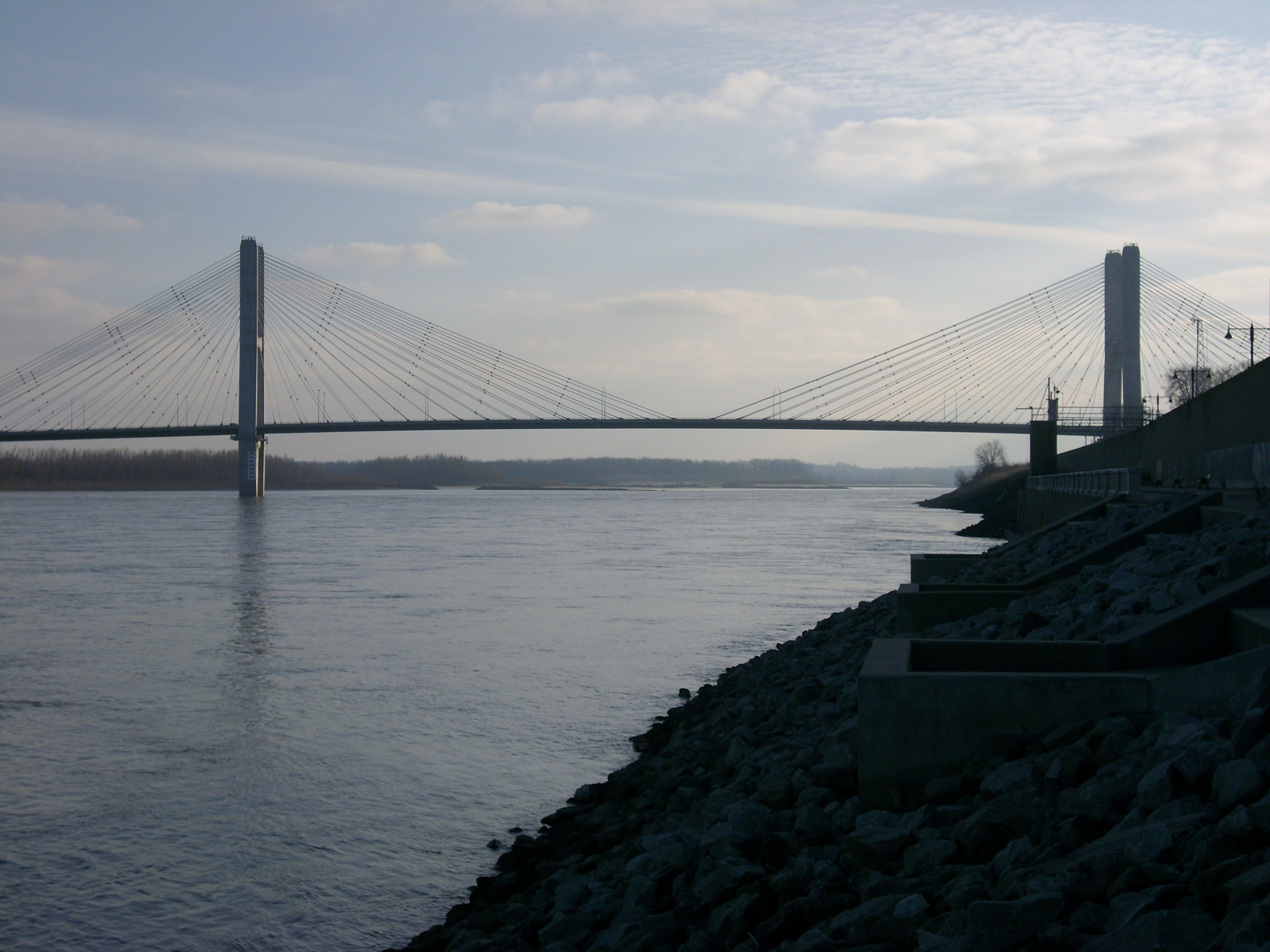 The Bill Emerson Bridge from a distance